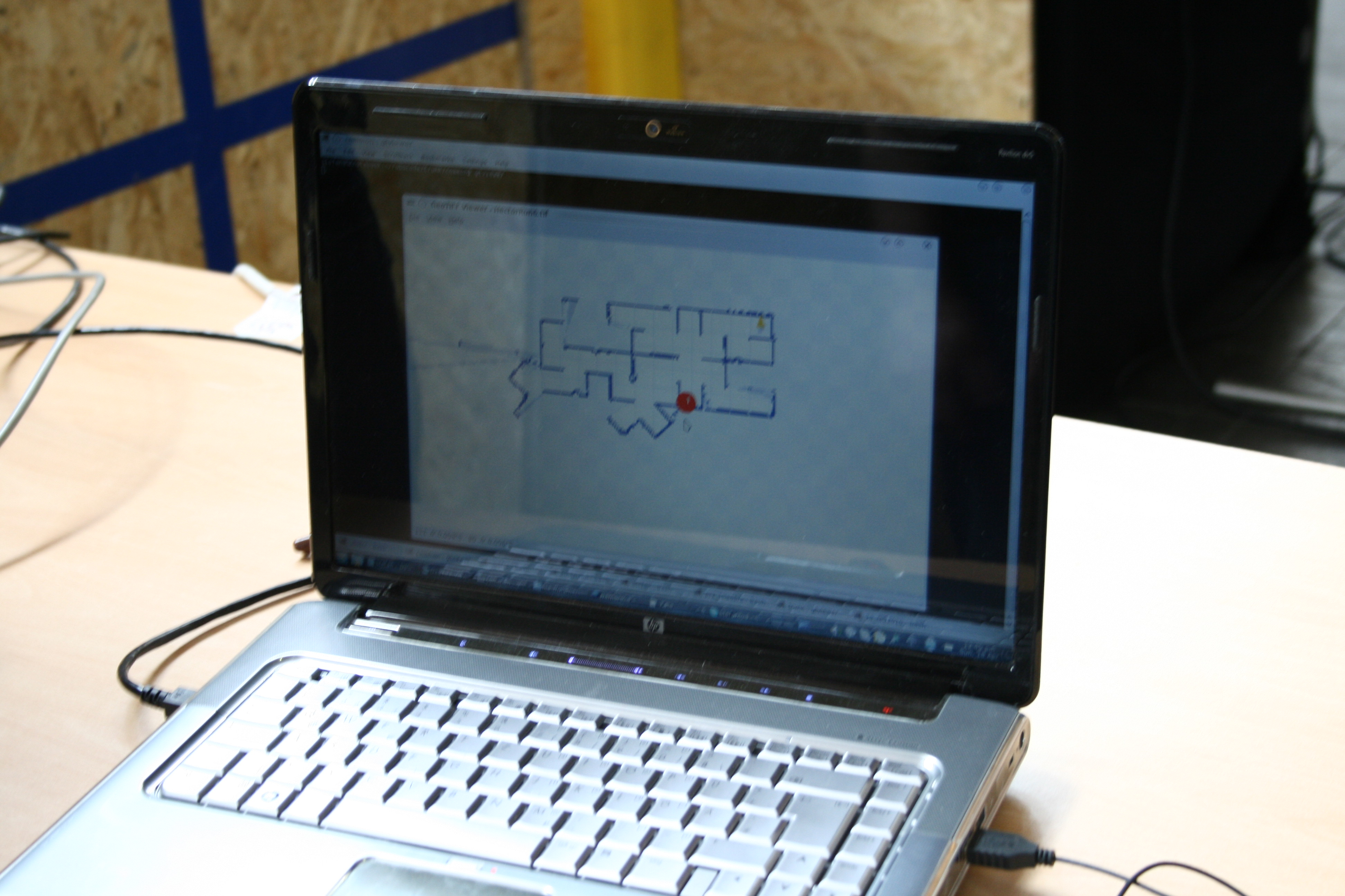 An arena map generated by Darmstadt Rescue Robot Team at the 2010 RoboCup German Open